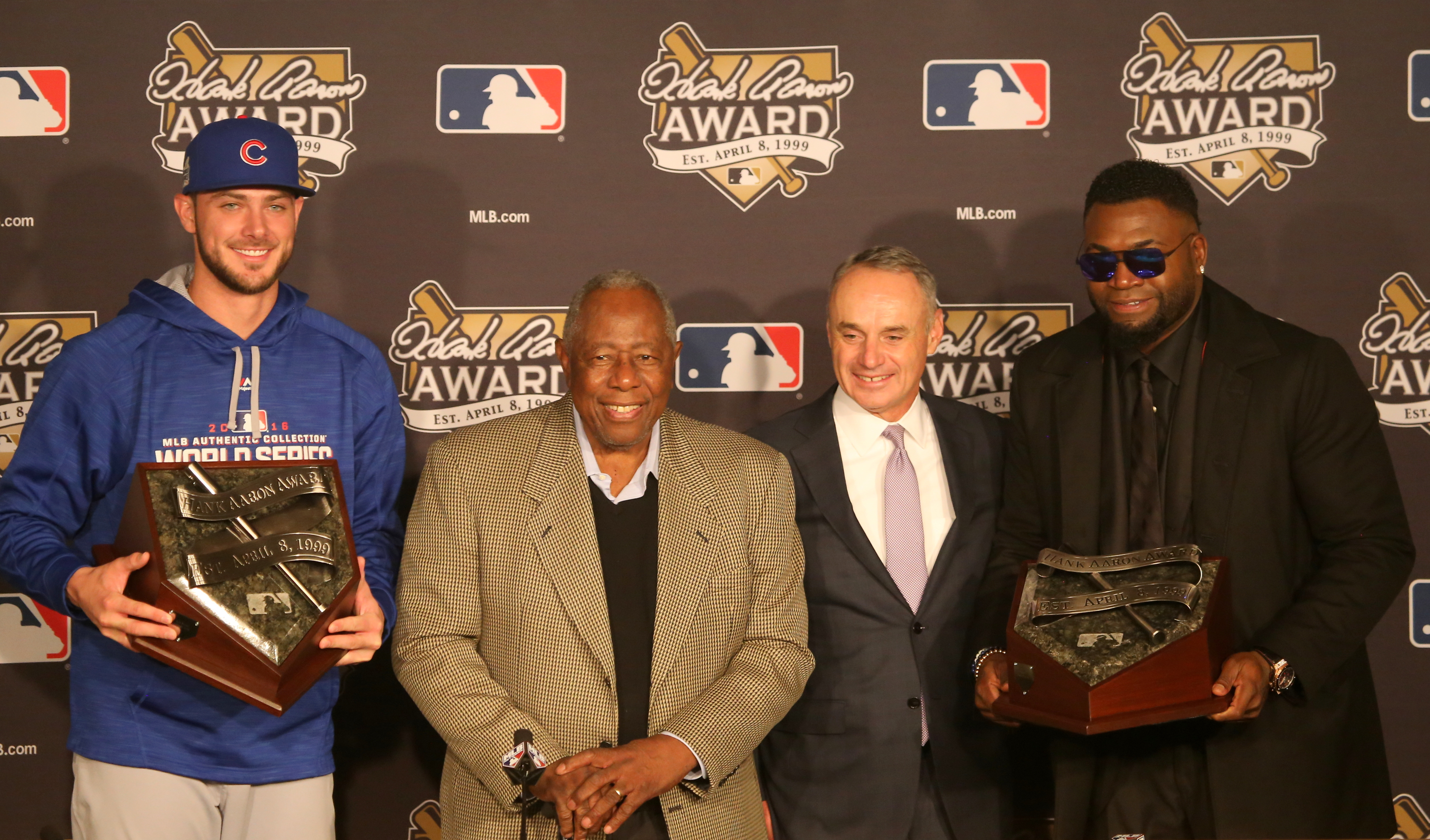 From left to right: Kris Bryant, Hank Aaron, Rob Manfred and David Ortiz in Cleveland on October 26, 2016. Bryant and Ortiz received the Hank Aaron Award for 2016.